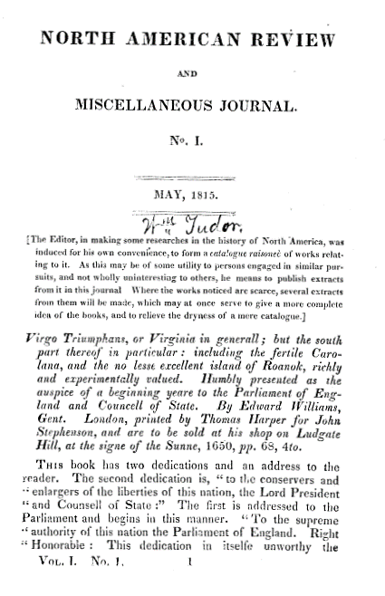 First issue of the North American Review with signature of its editor William Tudor of Boston, Massachusetts. This image is an edited version of the online archive of the North American Review from the Cornell University Library, and taken from the first page of The North American review, Volume 1, Issue 1, May 1815, pp. 1-14, "Books relating to America", available online at